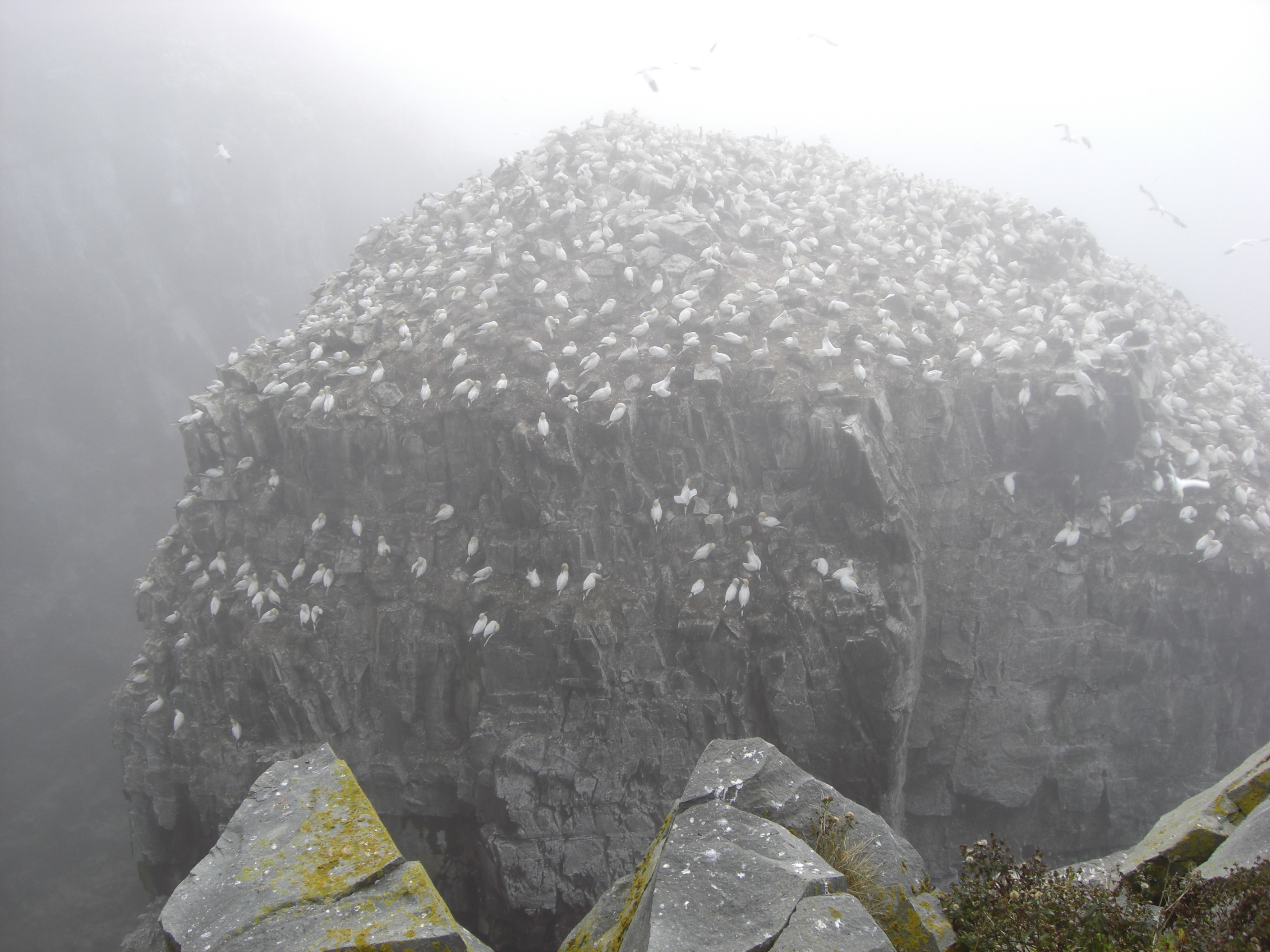 Cape St. Mary's Ecological Reserve, Newfoundland, with a colony of northern gannets